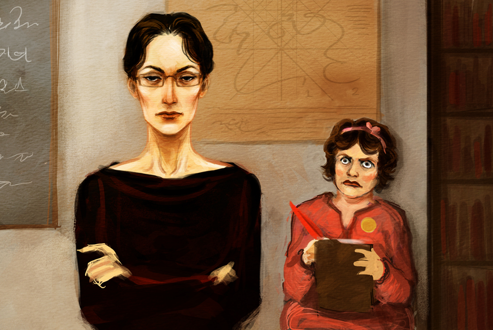 McGonagall and Umbridge (Harry Potter)